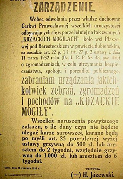 Announcement of a ban on any ukrainian civil activities on the occasion of the anniversary of the Battle of Cossacks and Poles near Berestechko. 1935